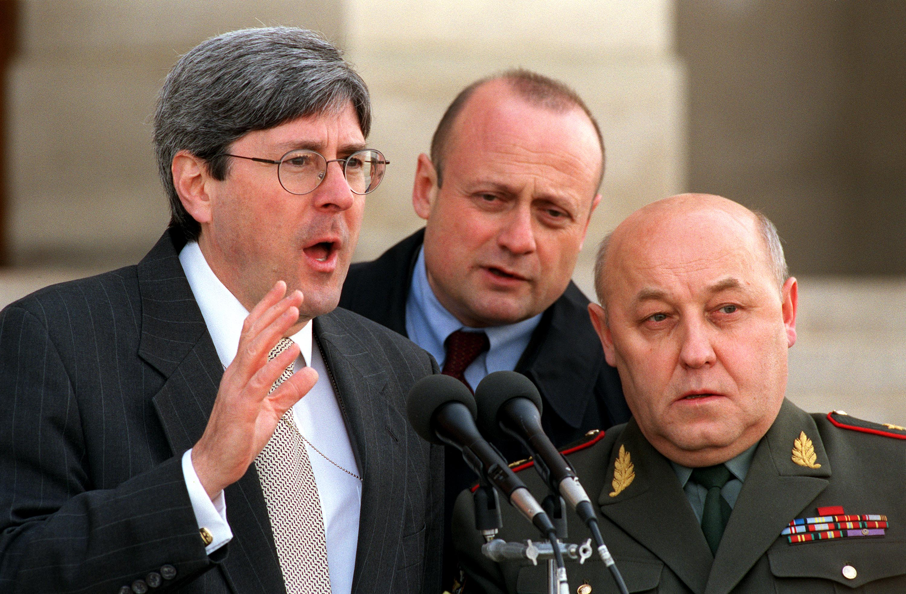 Under Secretary of Defense for Policy Douglas Feith and Gen.-Col. Yuriy Nikolayevich Baluyevskiy, 1st deputy chief of the Russian General Staff, hold a joint press conference at the Pentagon on Jan. 16, 2002. Feith and Baluyevskiy met earlier to discuss a range of issues including cooperative efforts to combat terrorism and the proliferation of weapons of mass destruction, missile defense cooperation, and bilateral strategic offensive weapons reductions.